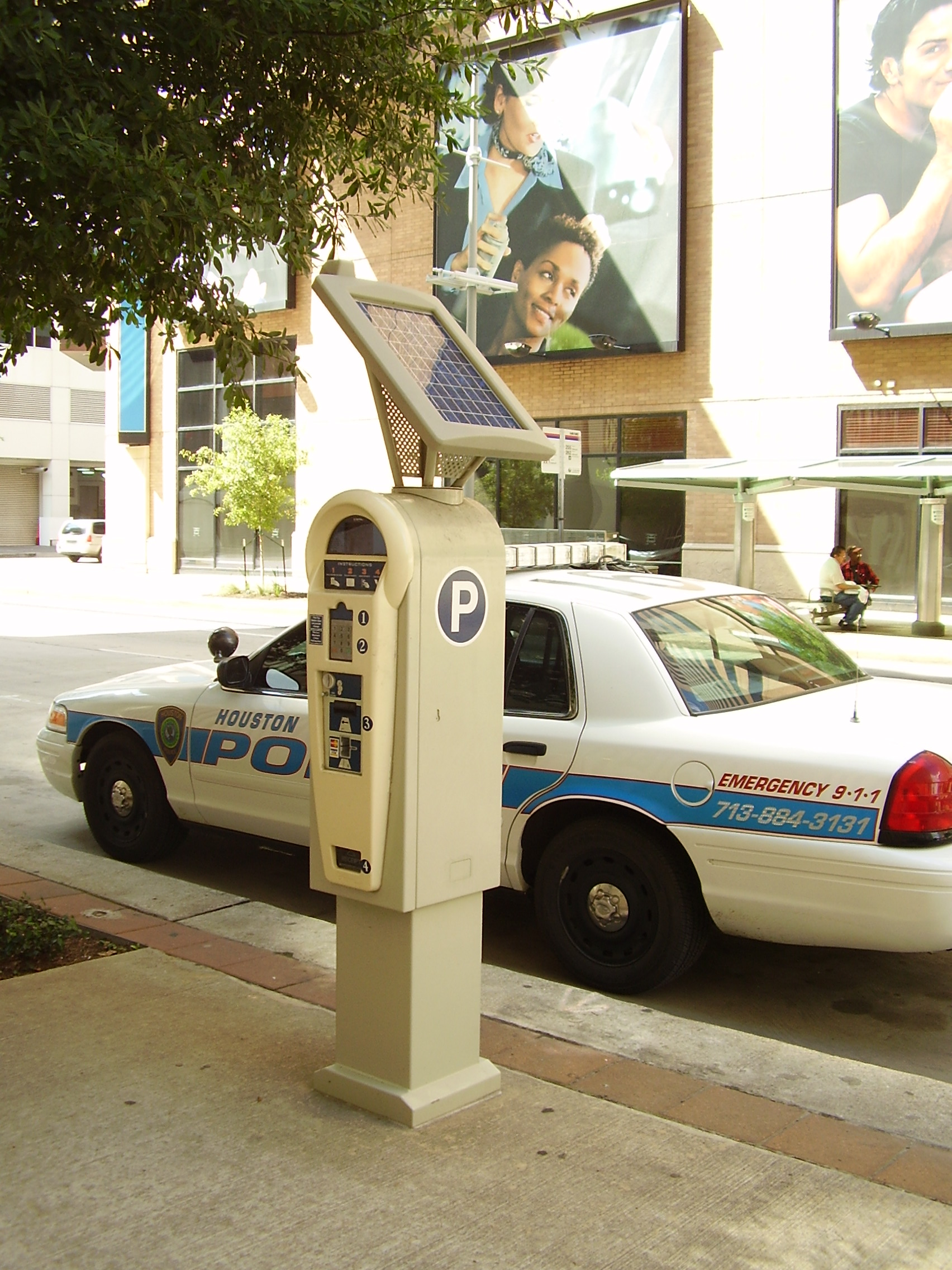 Parking meter in Downtown Houston